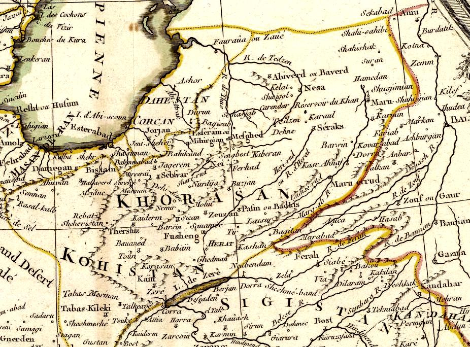 Carte de l'Empire de Perse. Projettee et assujettie aux observations astron. par Mr. Bonne, Hydrographe du Roi. A Paris, Chez Lattre Graveur, ordinaire de Monseigr. le Dauphin, rue S. Jacques a la Ville de Bordeaux. Avec privilege du Roy. 1787. Arrivet inv. & sculp.